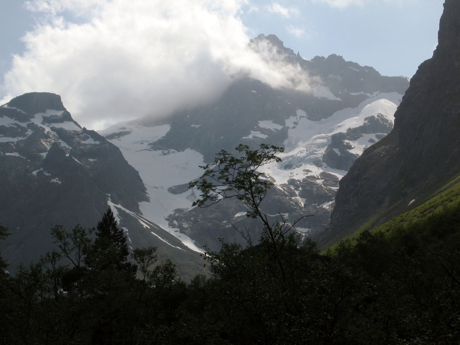 The north face of Kvanndalstind (1,744 m)